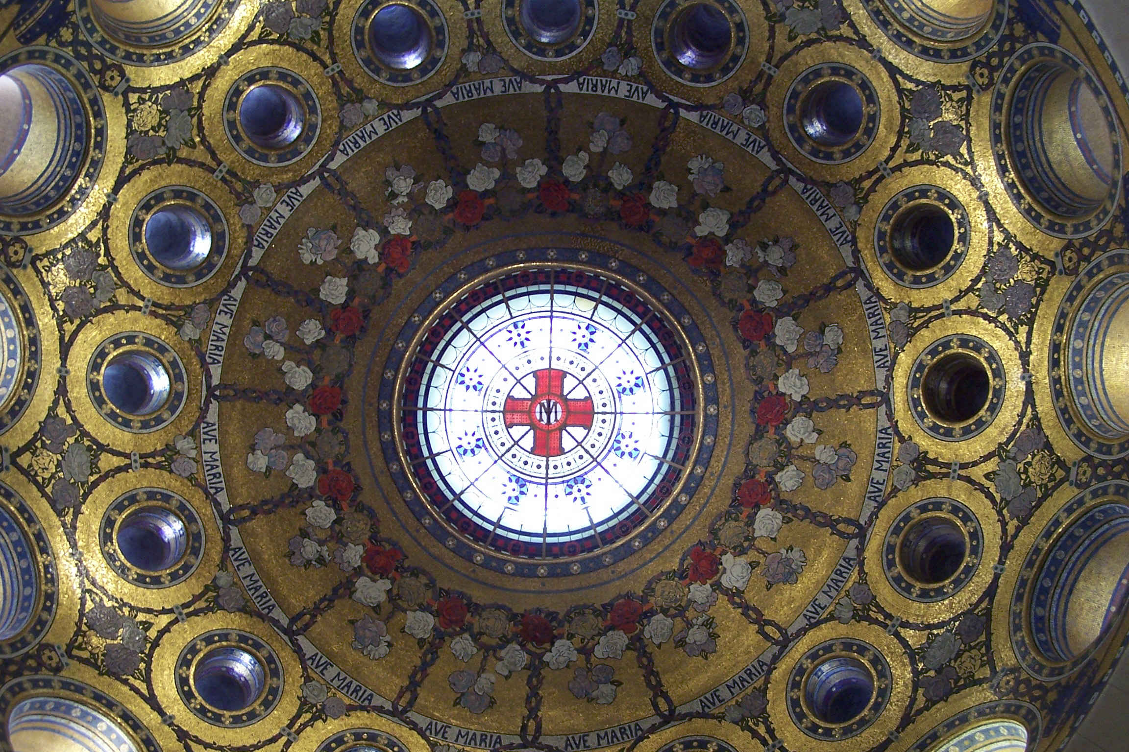 The interior of the dome of the Rosary Basilica, in the Sanctuary of Our Lady of Lourdes, France. Kodak DX6490 digital camera.